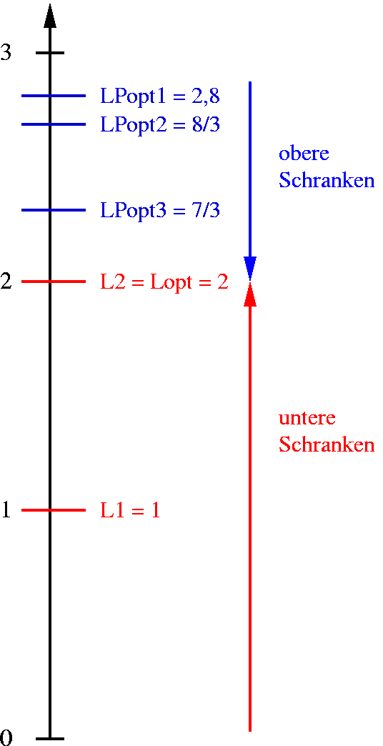 Upper and lower bounds in a primal-dual approach for solving an integer program. Self-made using xfig and fig2dev ( under Linux. The .fig-files can be obtained from me upon e-mail request. A .svg version was not displayed correctly, which is why I created a .png file instead.